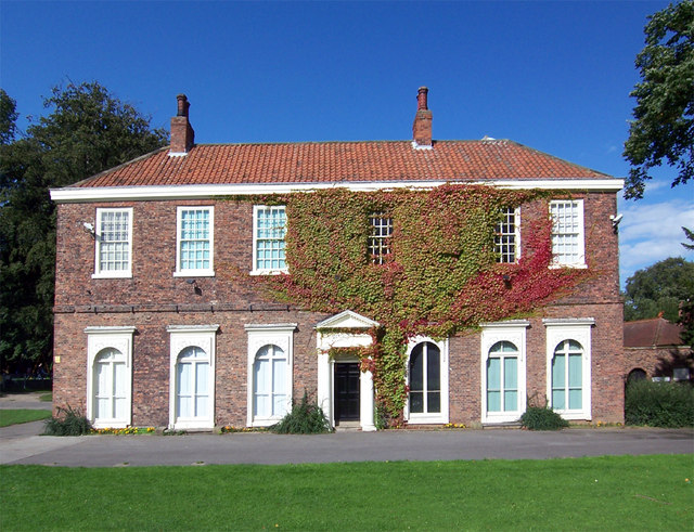 Baysgarth House. This building houses the Barton Upon Humber Museum. For a detailed view of a ground-floor window and the doorway see 231412.